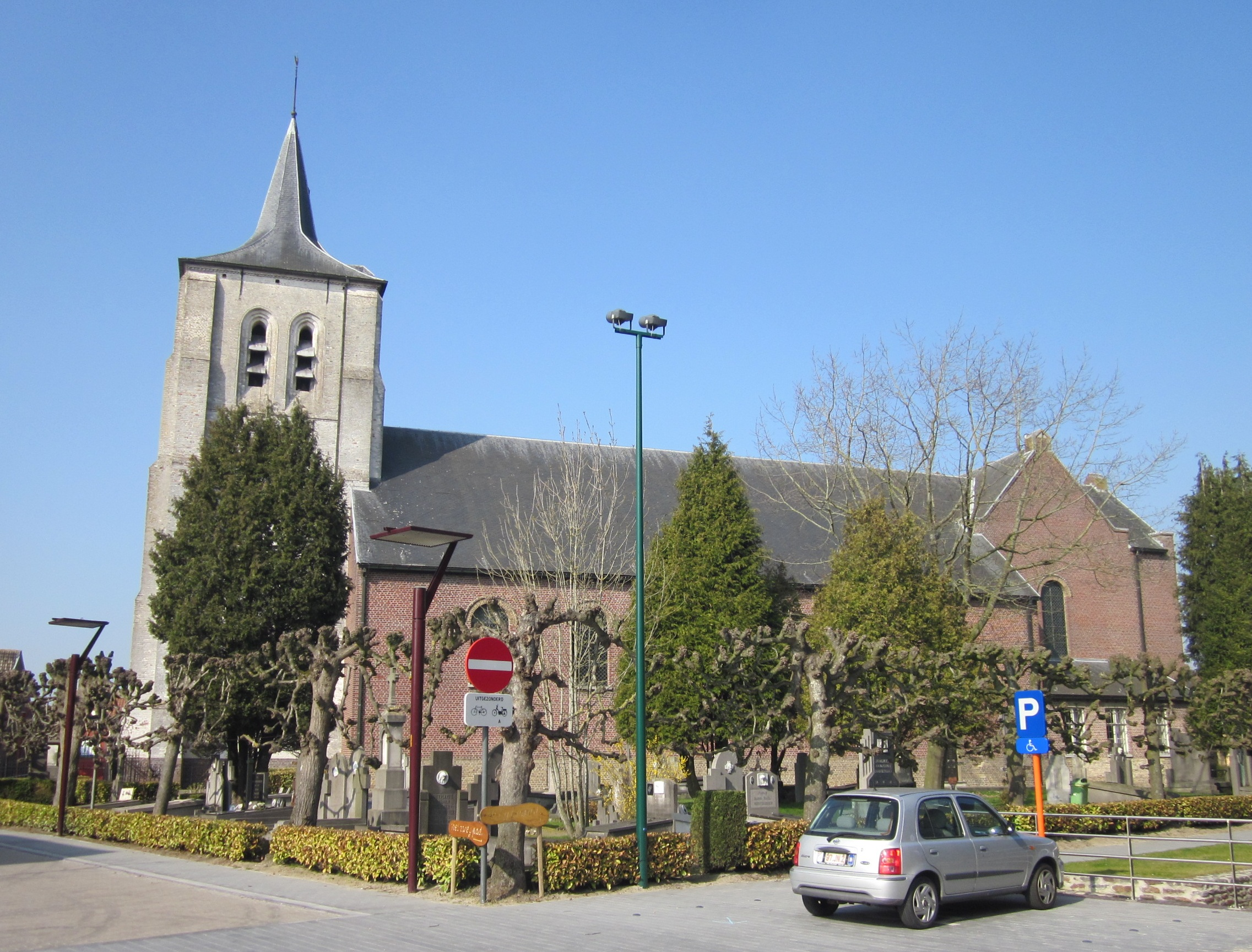 Church of Saint Lawrence in Zedelgem, Belgium